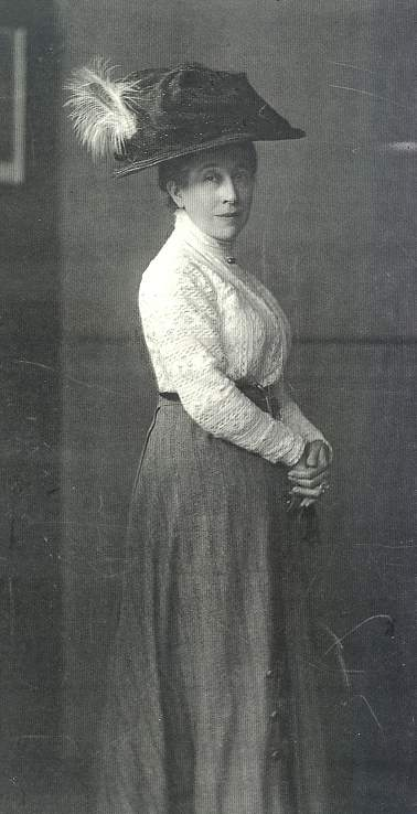 Susanne von Nathusius, a German painter (portraits) from Halle (Saale), ca 1910